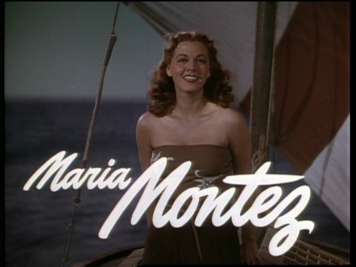 Screenshot of Maria Montez from the trailer of the film Cobra Woman